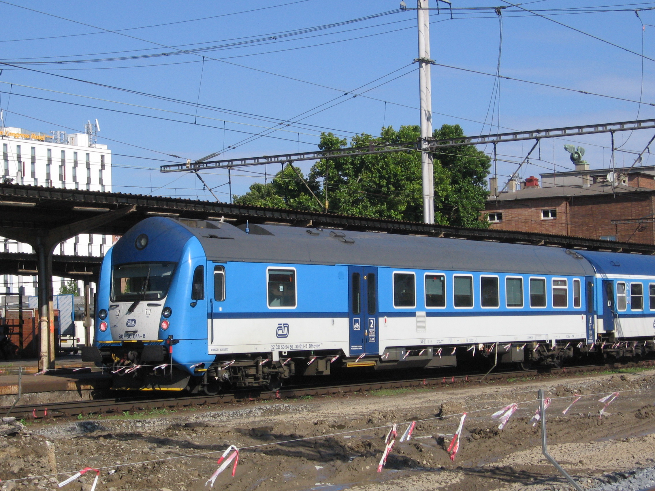 Olomouc main station under reconstruction with driving coach Bfhpvee 80-30 011